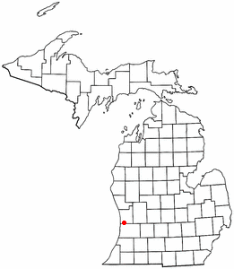 Map of U.S. state of Michigan with dot on Holland, Michigan.